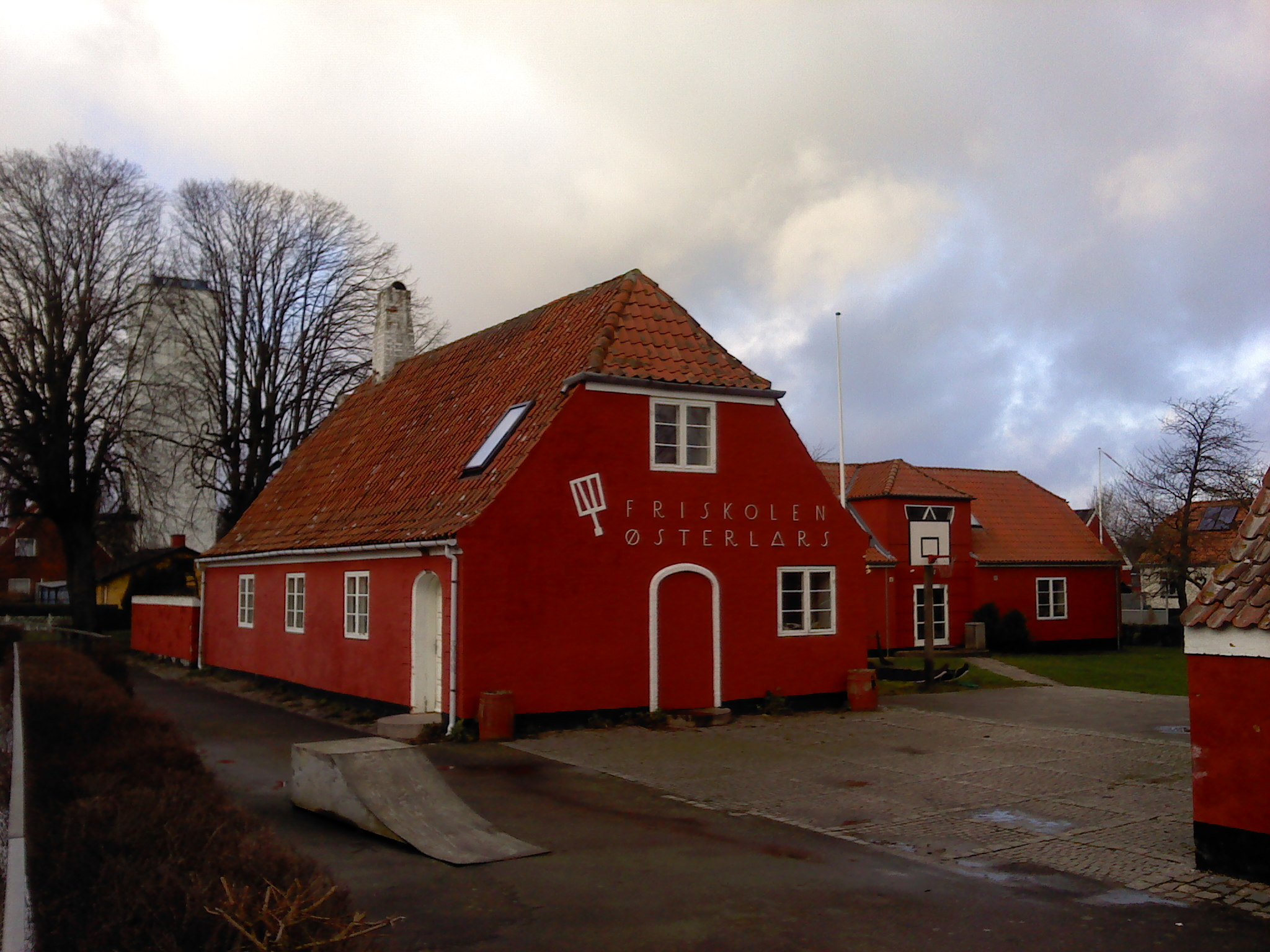 Østerlars Station